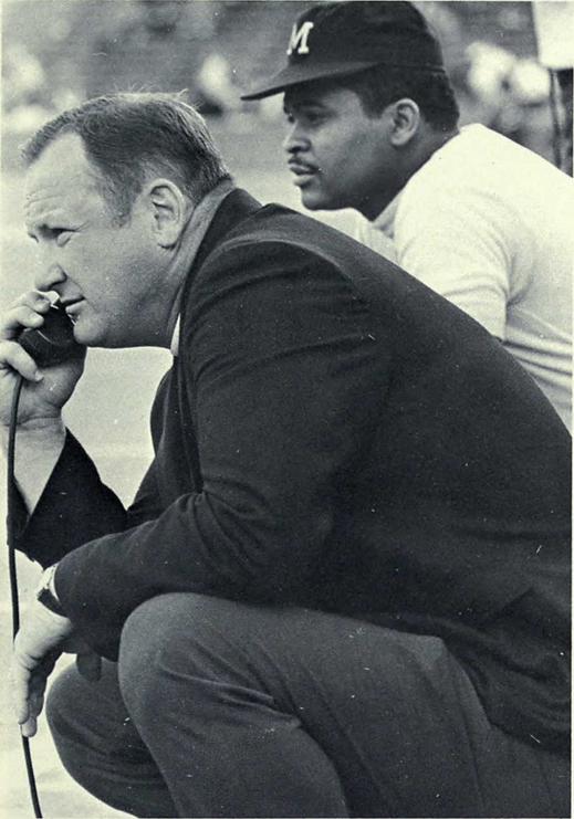 Photograph of Bo Schembechler coaching the 1969 Michigan Wolverines football team.